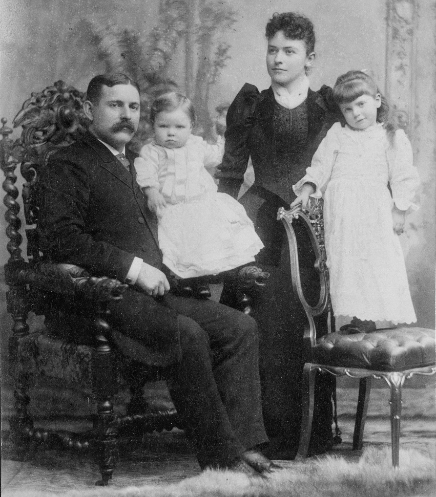 This picture shows Attorney Ford, son Byington, wife Mary, and daughter Relda Ford posing for a picture around 1891.